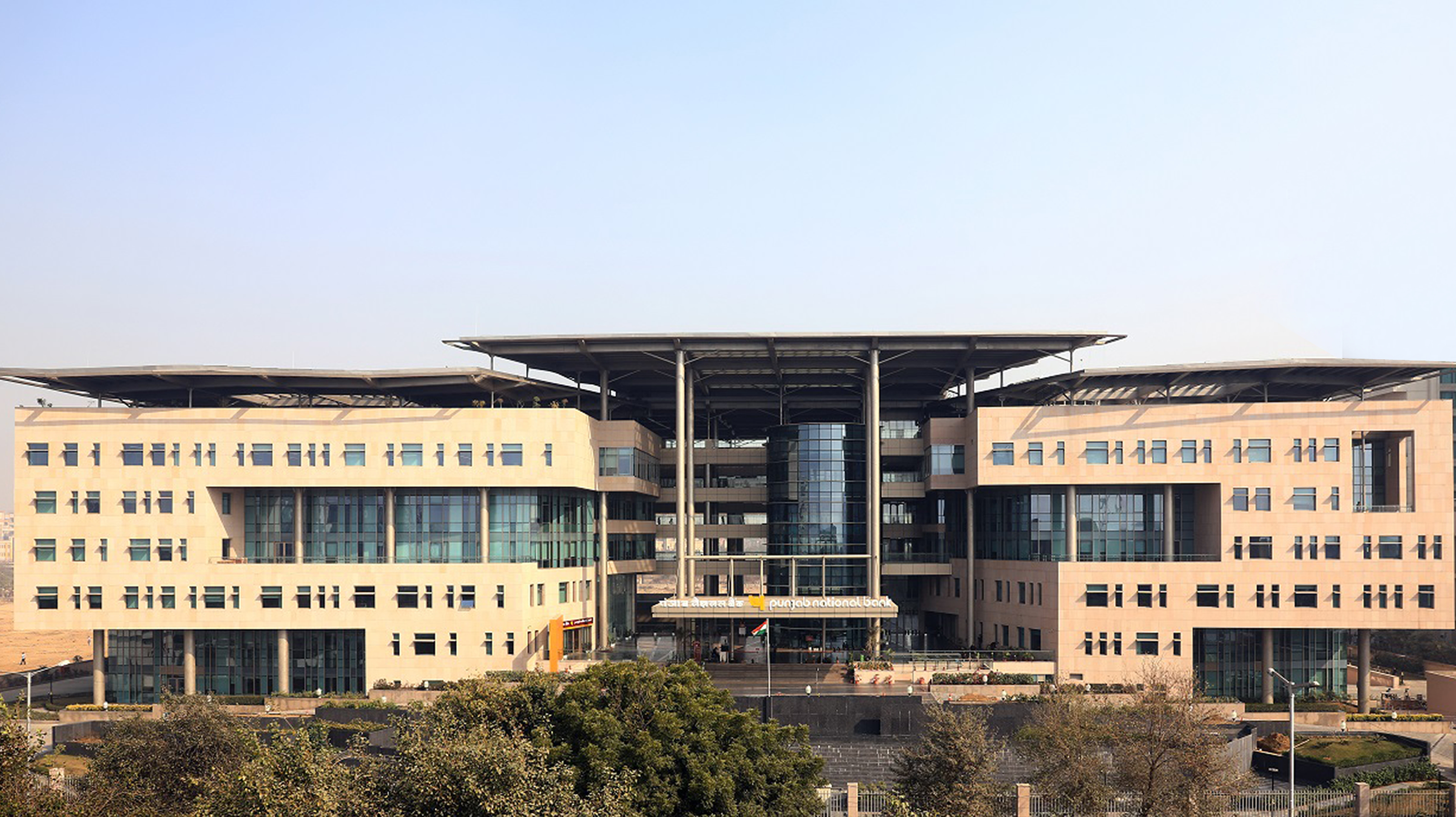 Punjab National Bank Head Office at Dwarka Sector 10, Delhi